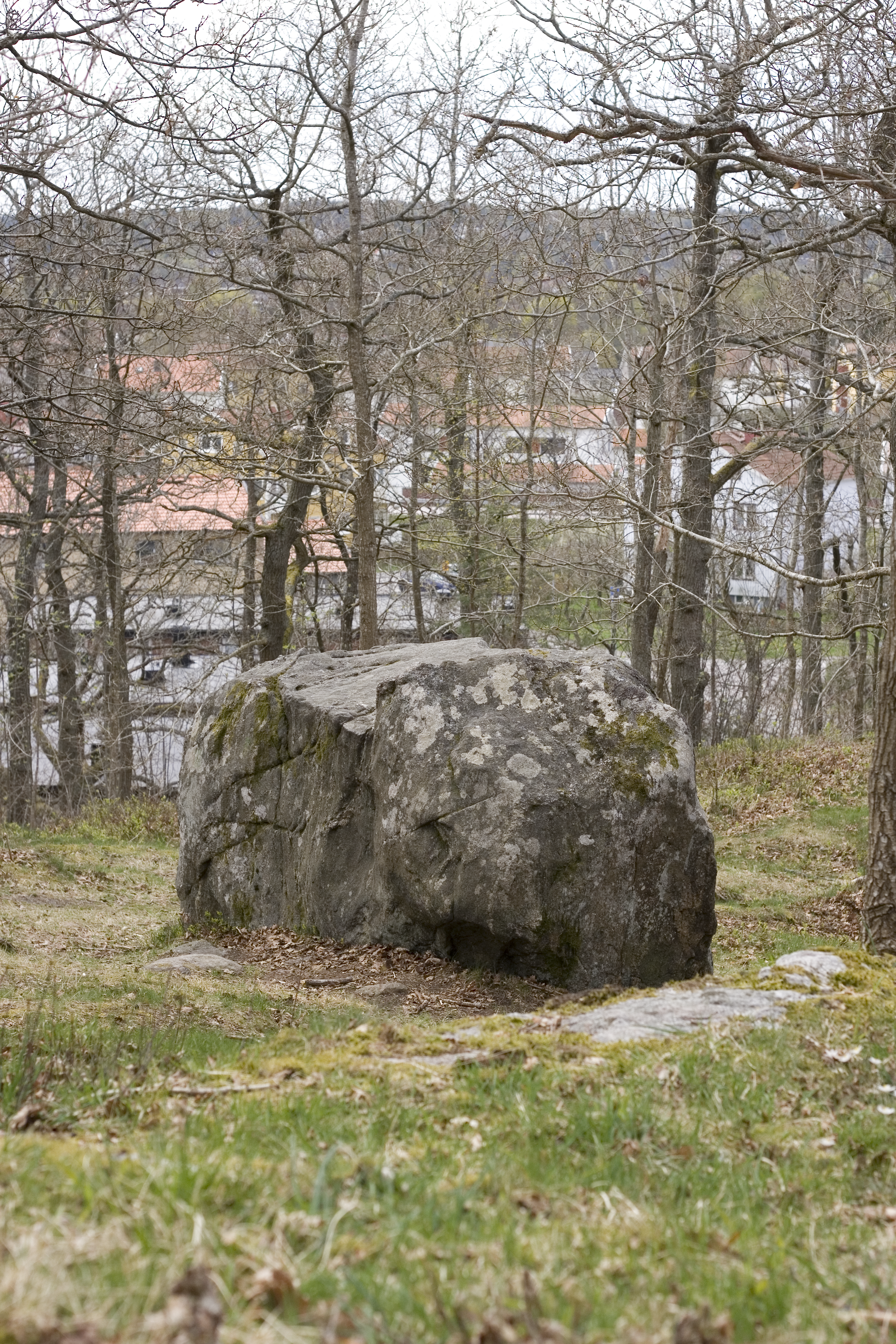 Karin Boye's memorial stone, Bolltorp, Alingsås, Sweden. In the spring 1941, Karin Boye stayed in Alingsås to help her friend Anita Nathorst who had cancer. On the 23rd of April 1941 Boye left home and was found dead on the 27th of April at a lookout point at Bolltorp, Alingsås. Boye was found just beyond the stone with views of nature and the city of Alingsås in the background. Most of the buildings in the picture did not exist in 1941.